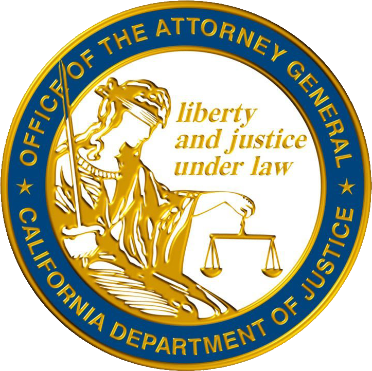 CA Department of Justice Seal